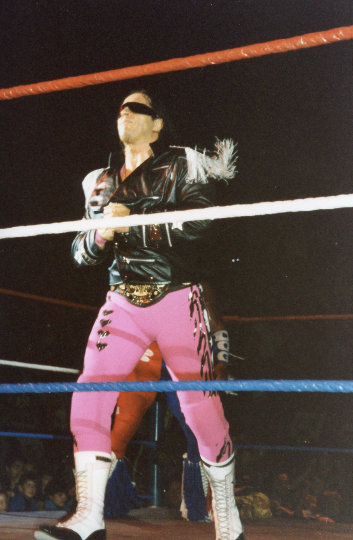 Bret Hart about to reveal his WWF Championship